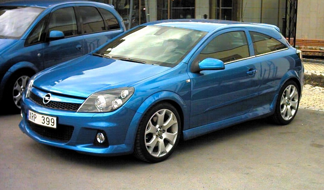 Opel Astra. Photo taken by User:Boivie in Jönköping 7 April 2006